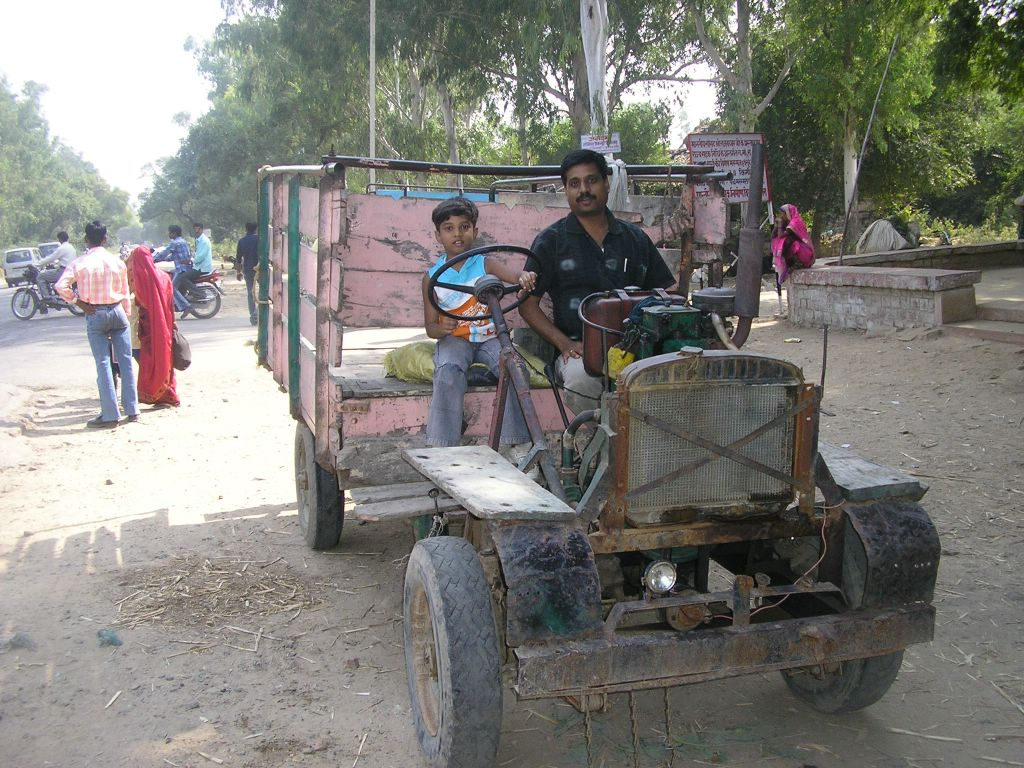 Taken in a village Near Jaipur (Rajasthan, India) by Sanjay Kattimani